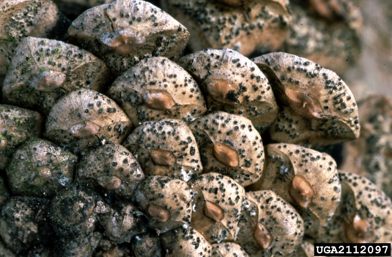 Pycnidia on cone scales, Czechia